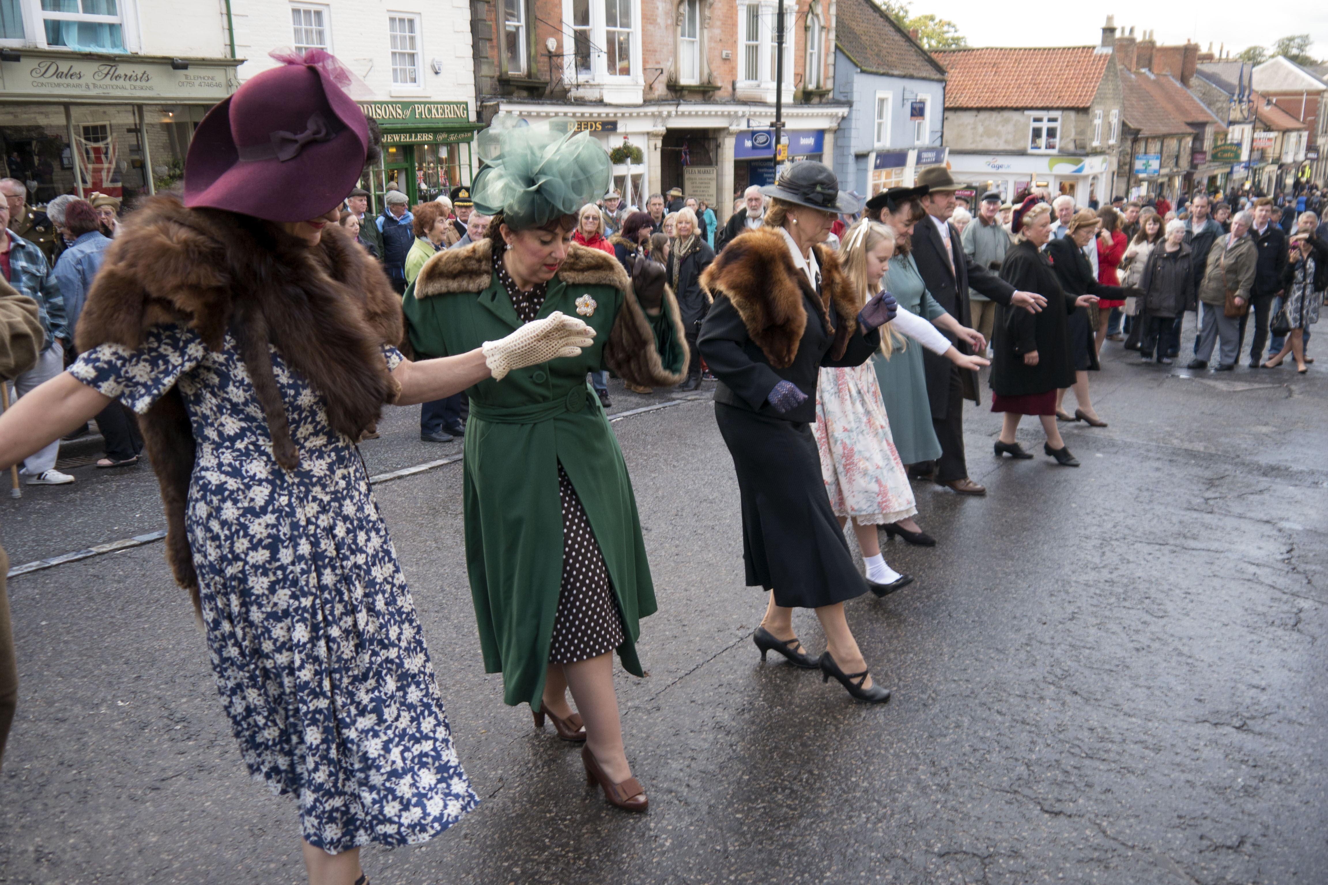 Pickering War Weekends